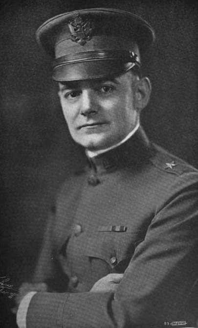 Frank S. Dickson, Illinois Congressman and Adjutant General of the Illinois National Guard